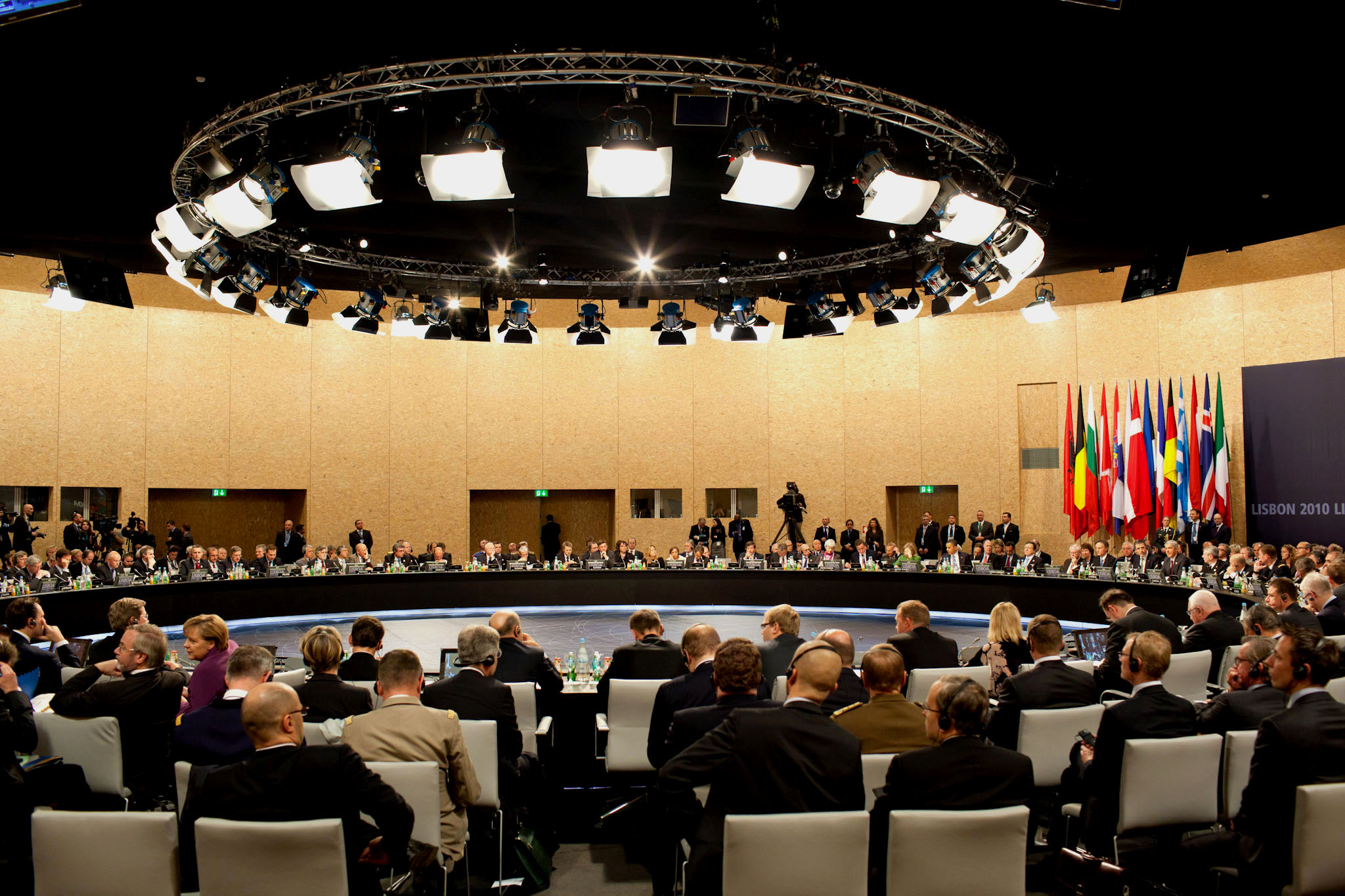 World leaders participate in the North Atlantic Council opening session on the first day of the Summit in Lisbon, Portugal, Nov. 19, 2010.